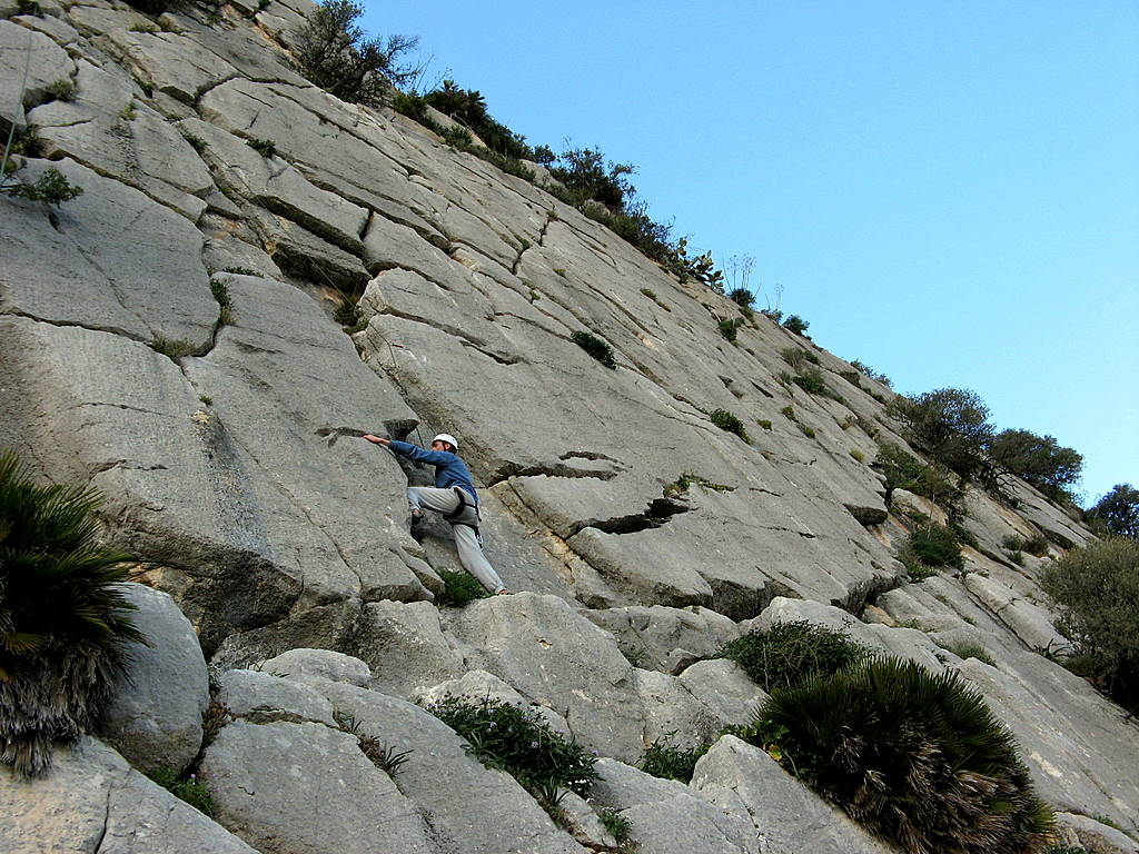 Valle de Abdalajis